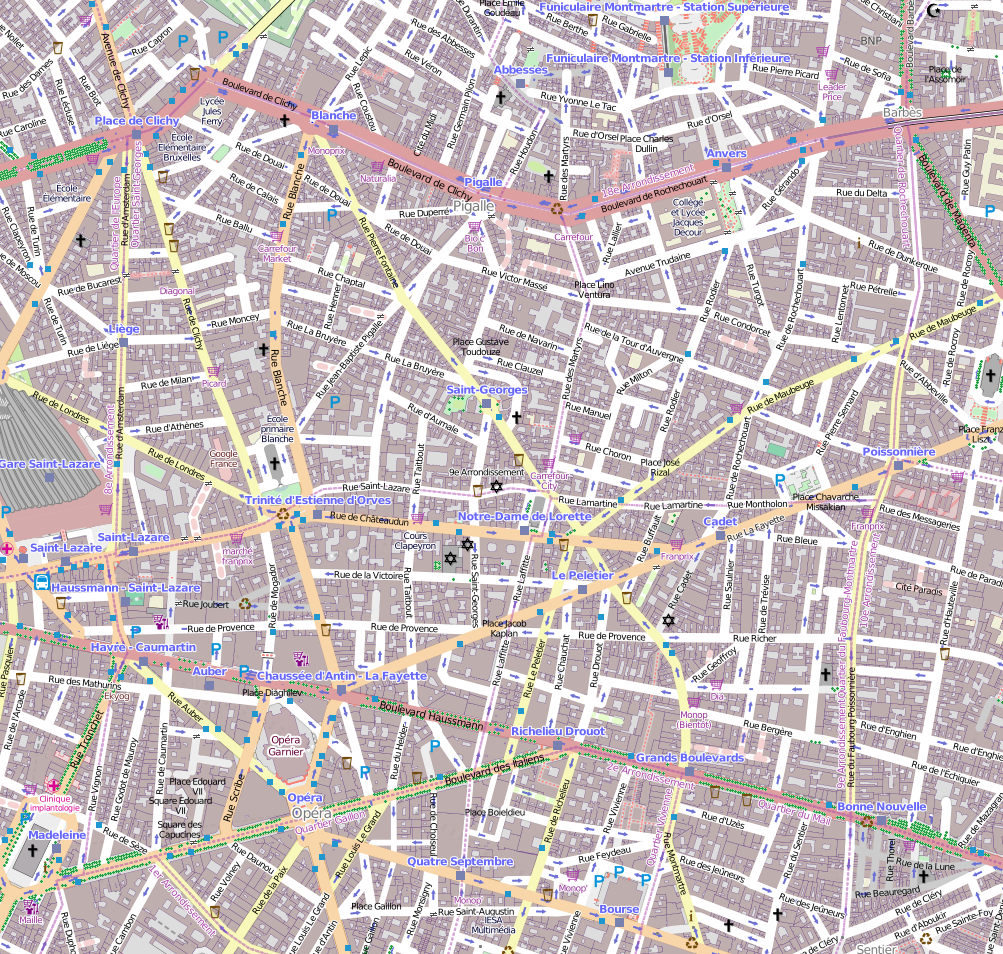 Map Paris 9th arrondissement.